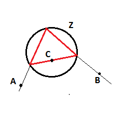 Cramer-Castillon's problem